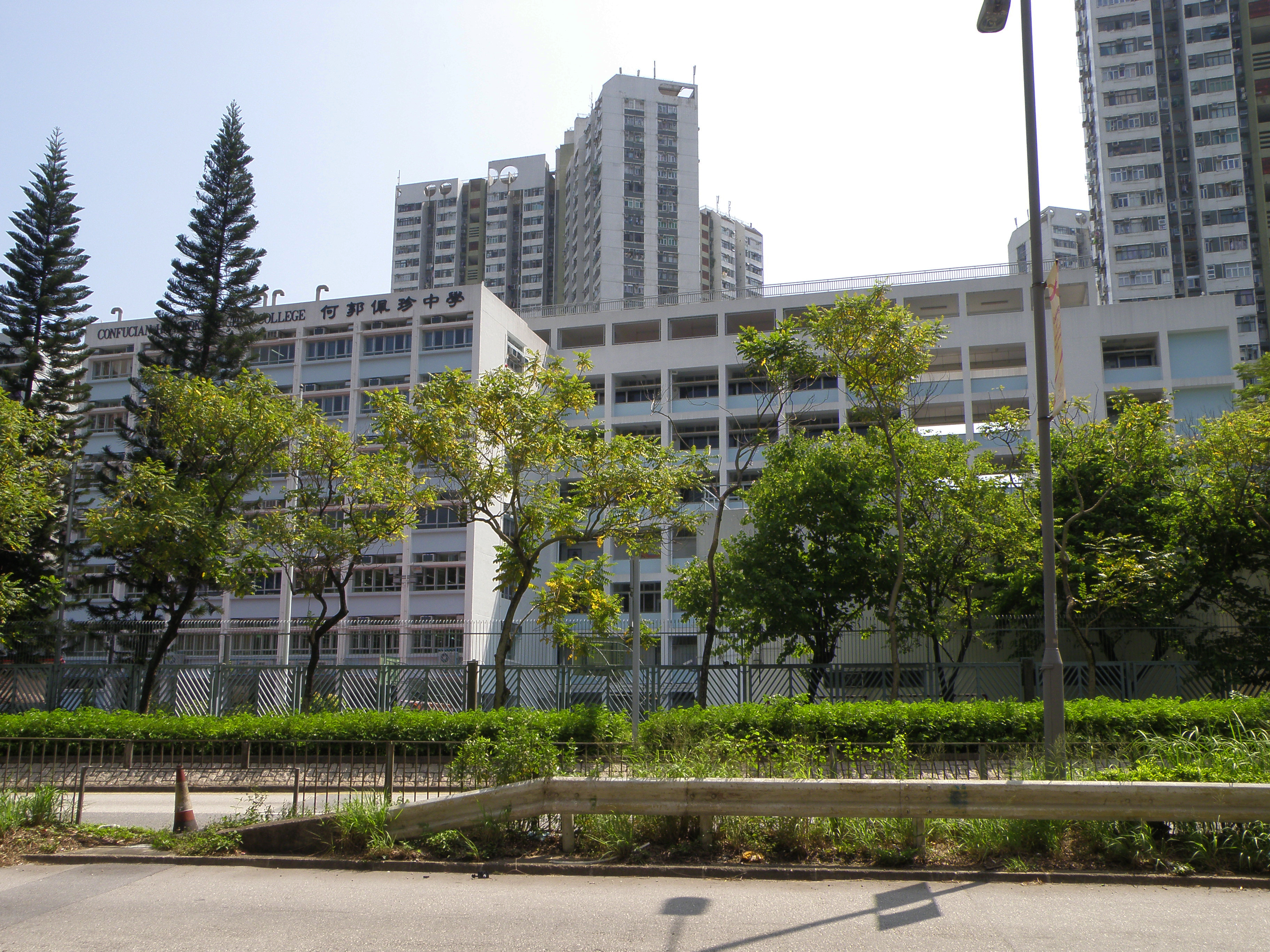 Confucian Tai Shing Ho Kwok Pui Chun College in Tai Po, Hong Kong.